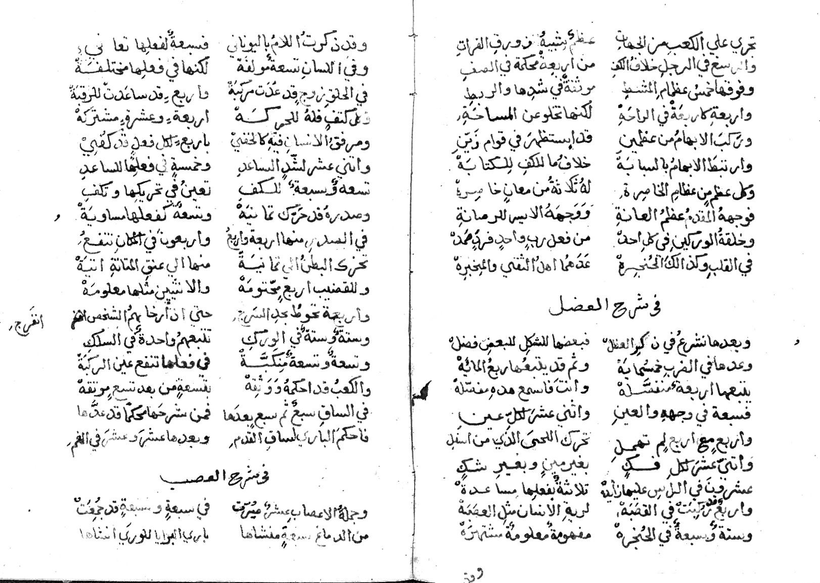 Text: contains the title "Muscles" Asian Collection Keywords: anatomy, arabic; Avicenna